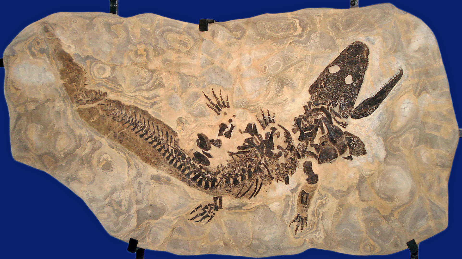 Original fossil of adult Sclerocephalus haeuseri at the State Museum of Natural History in Stuttgart (Germany)